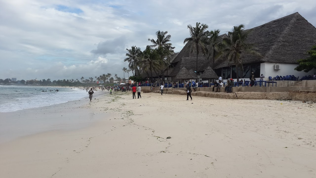 Coco Beach, Dar es salaam, Tanzania